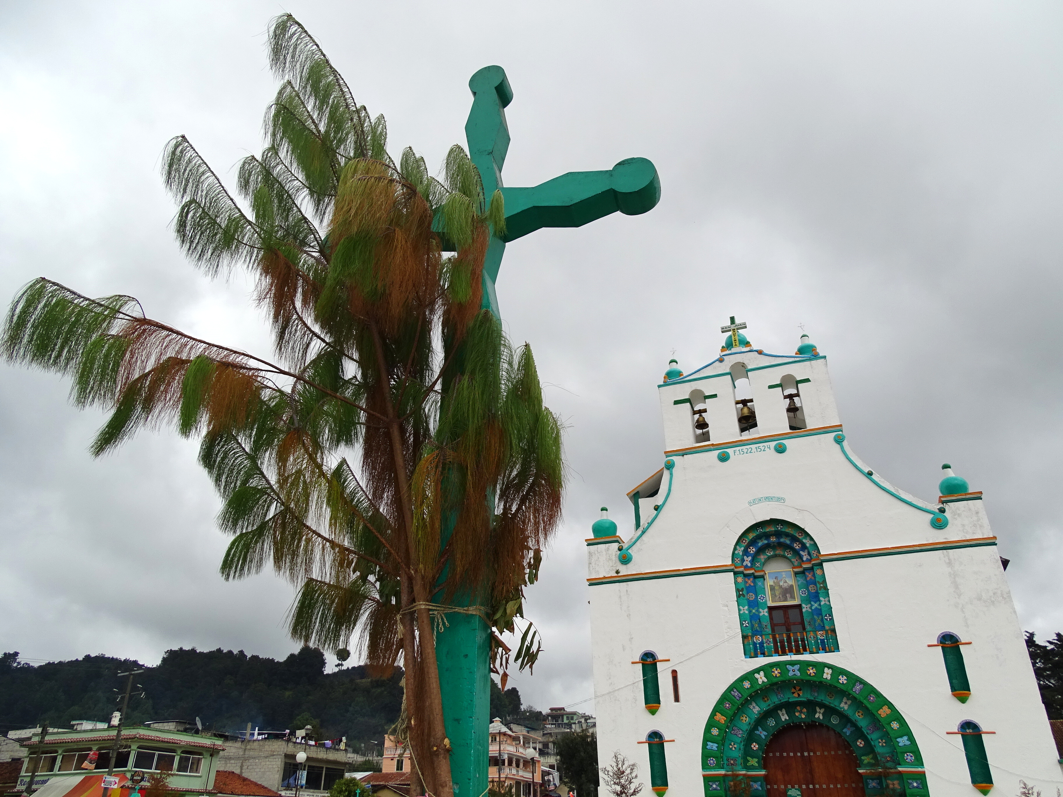 Facade of Iglesia de San Juan Bautista with Wooden Cross - Chamula - Chiapas - Mexico